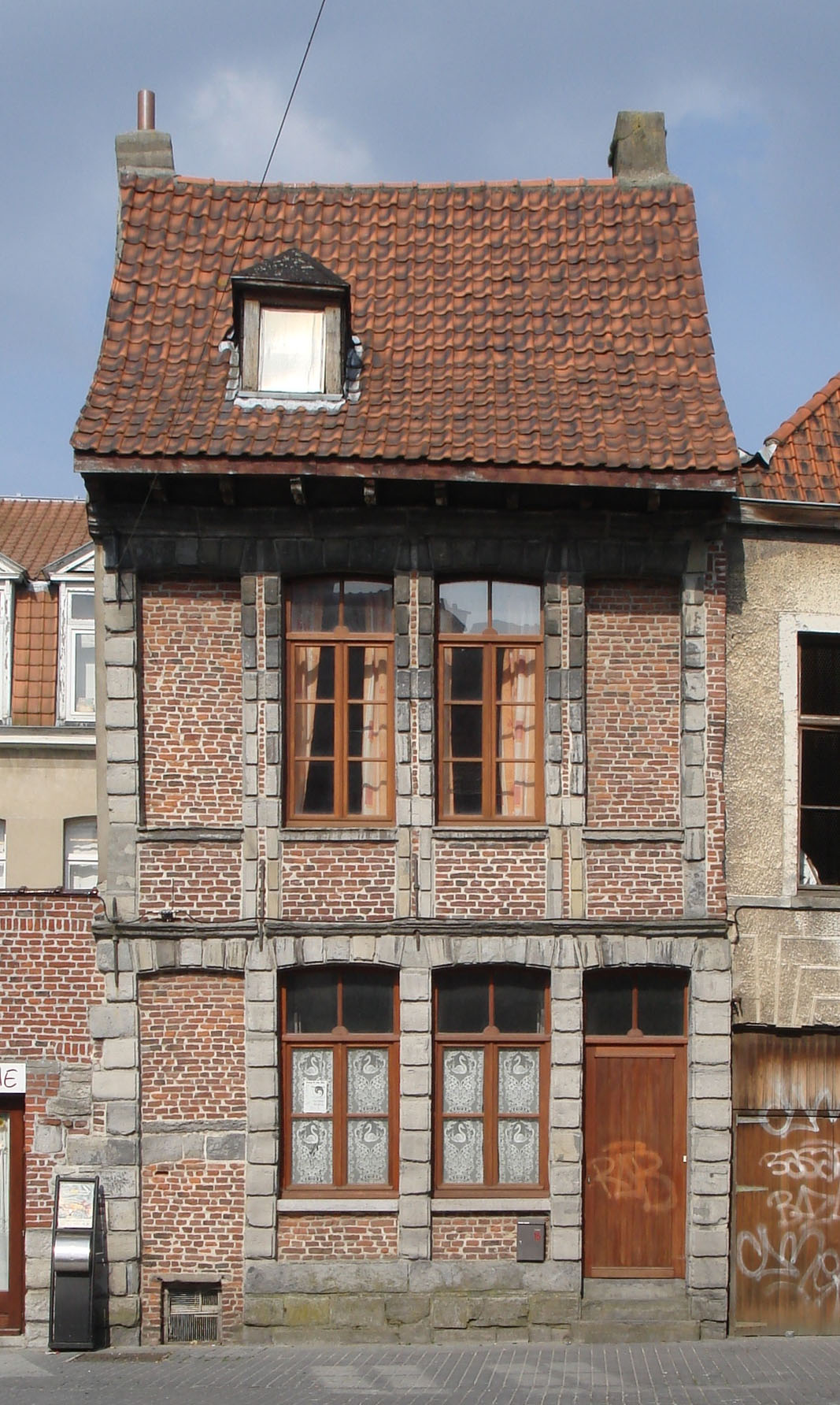 Tournai (Belgium), Louis XIV style house - Choncq Clotiers's road.